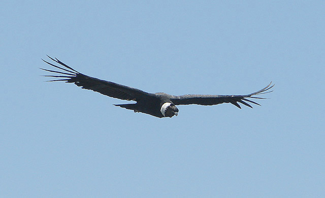 An Andean Condor on Cerro Animas, Maule Reservoir area, Chile In context at